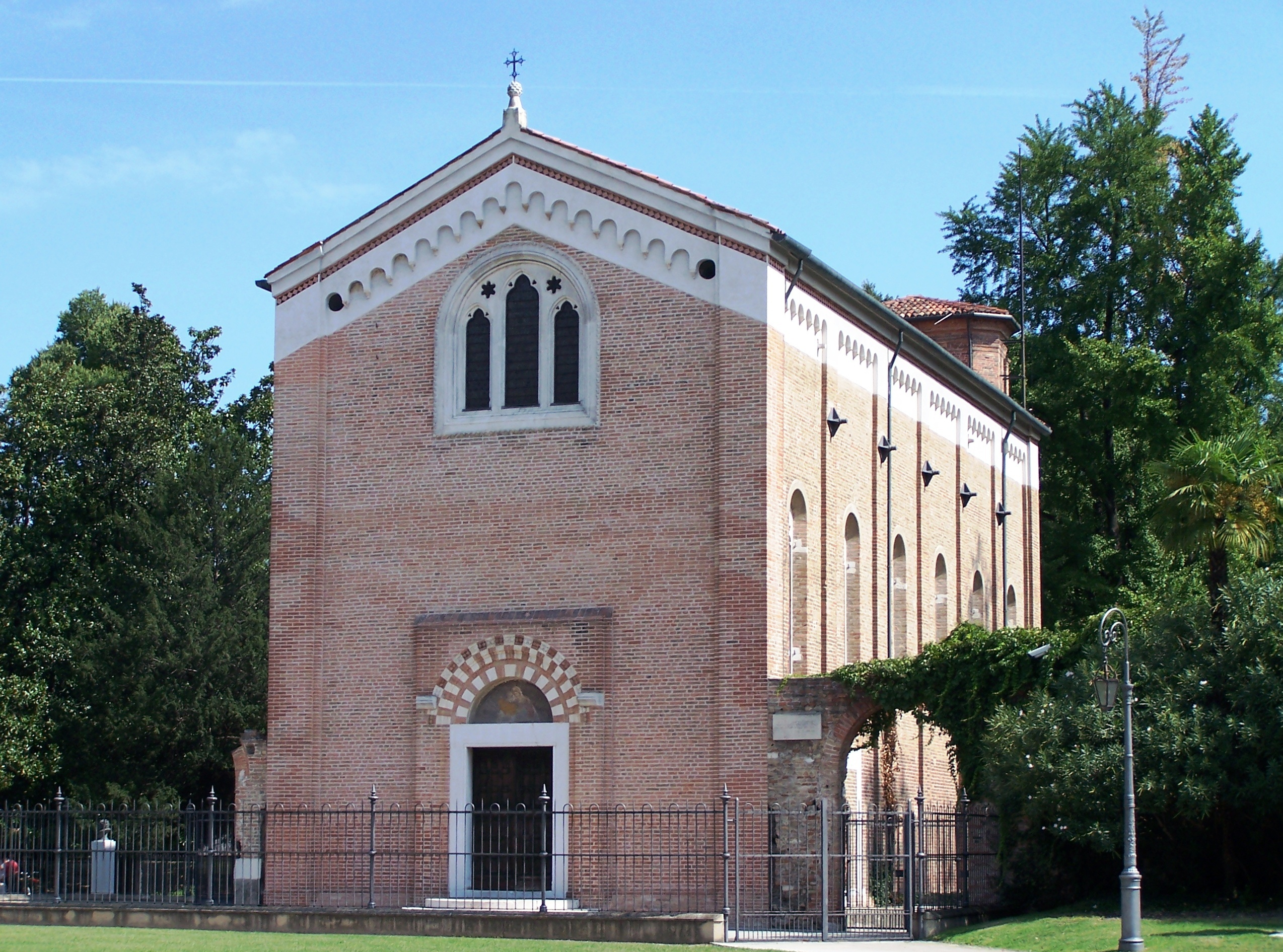 The building of the Cappella degli Scrovegni (Scrovegni chaple) in Padua, Italy.